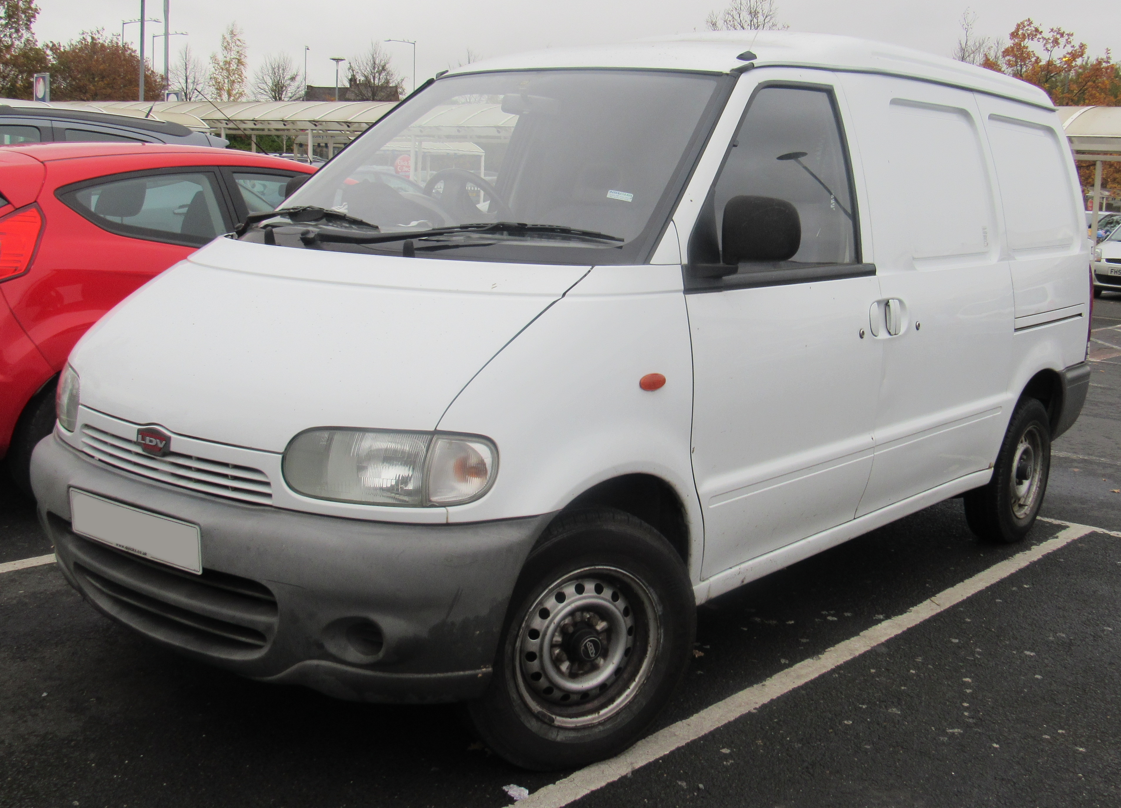 2001 LDV Cub Diesel 2.3 Front (Still a few on the road over here but are thinning out quickly, Only 450 are on the road and 455 on SORN as of Q3 2017) Taken in Warwick